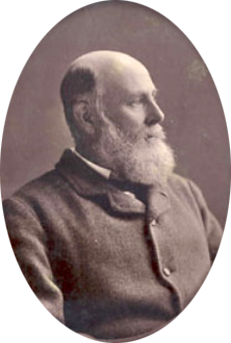 Thomas William Evans, owner of Allestree Hall circa 1880